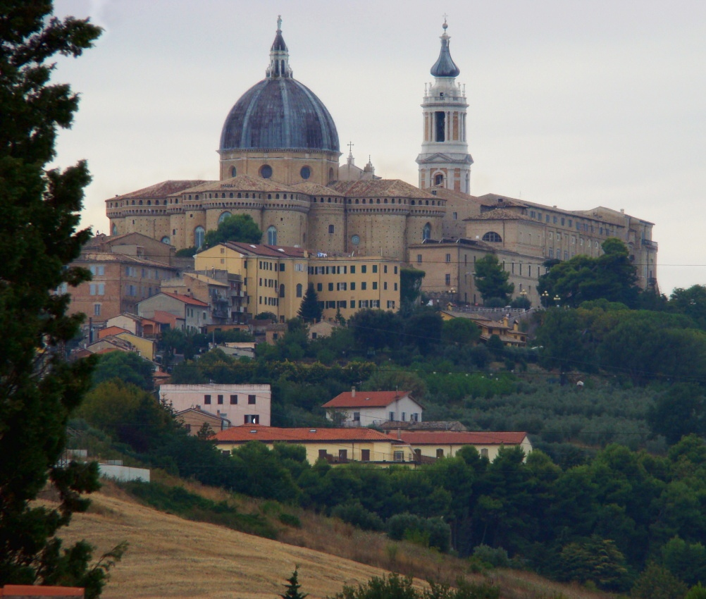 View of Loreto, Italy